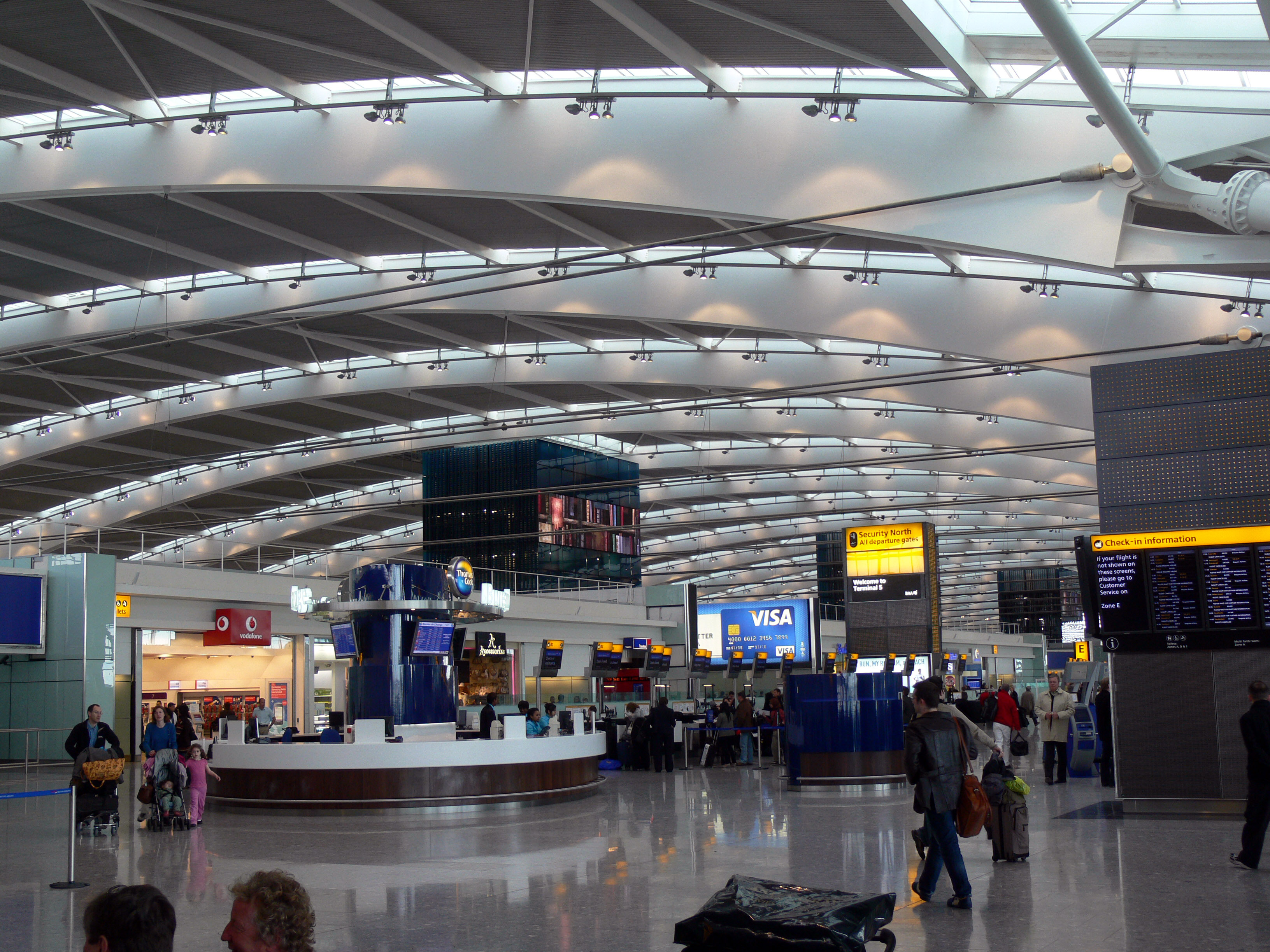 London Heathrow Airport Terminal 5 interior